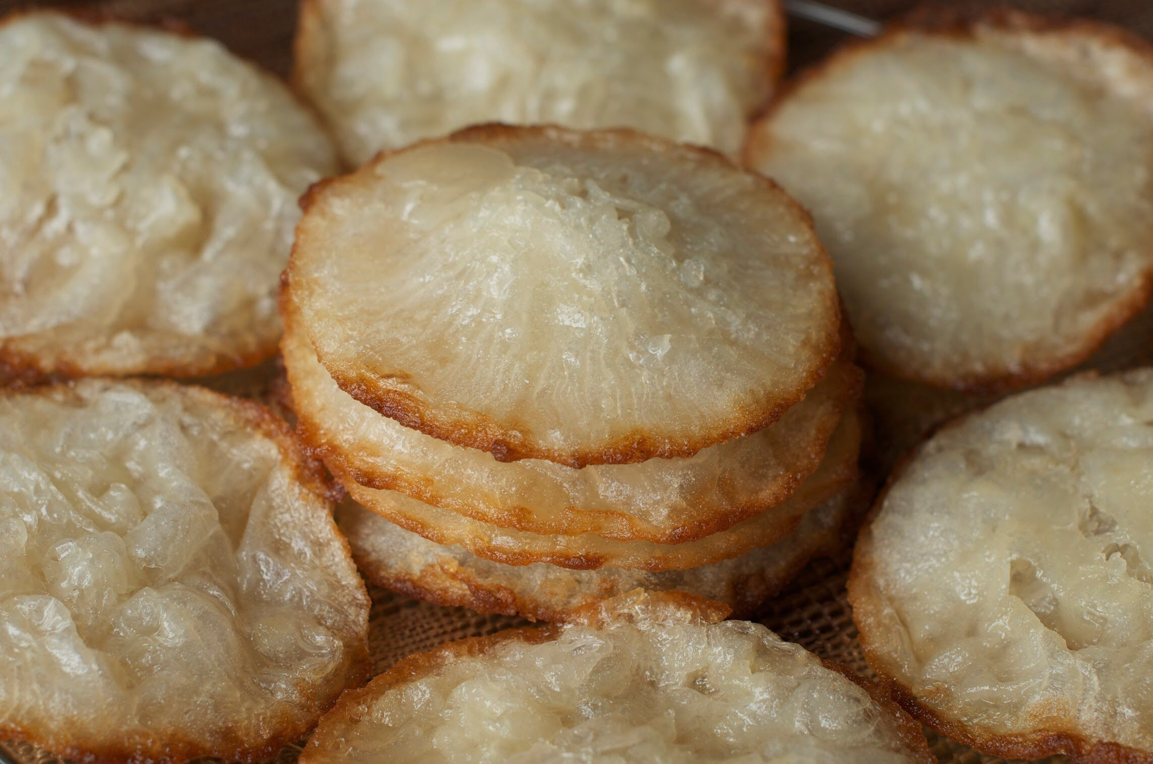 somali sweet This is an image of food from Somalia